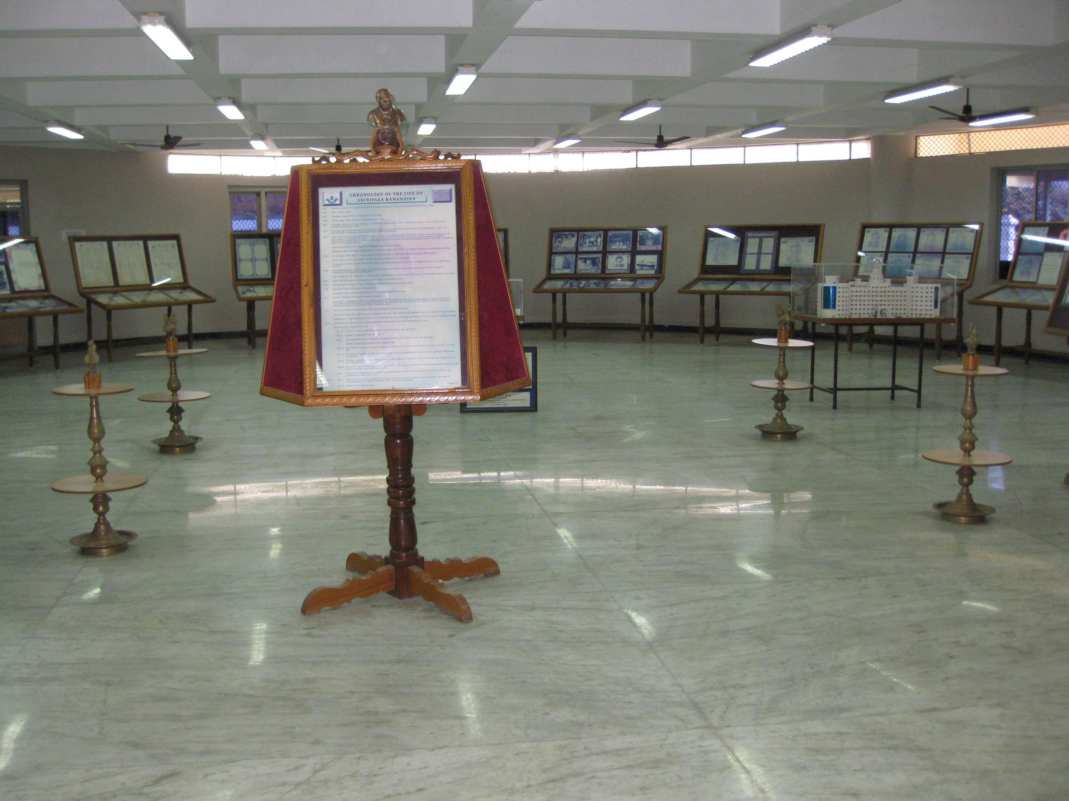 Ramanujan museum, SASTRA University, Kombakonam, India.